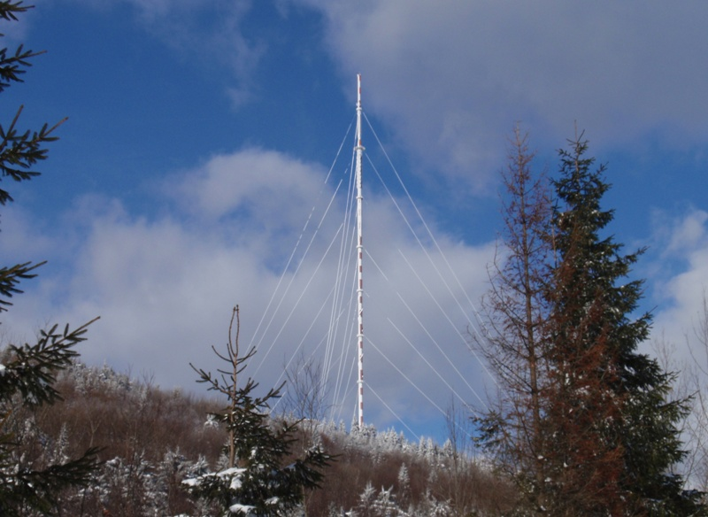 Suchá Hora transmitter near Kremnica, Slovakia